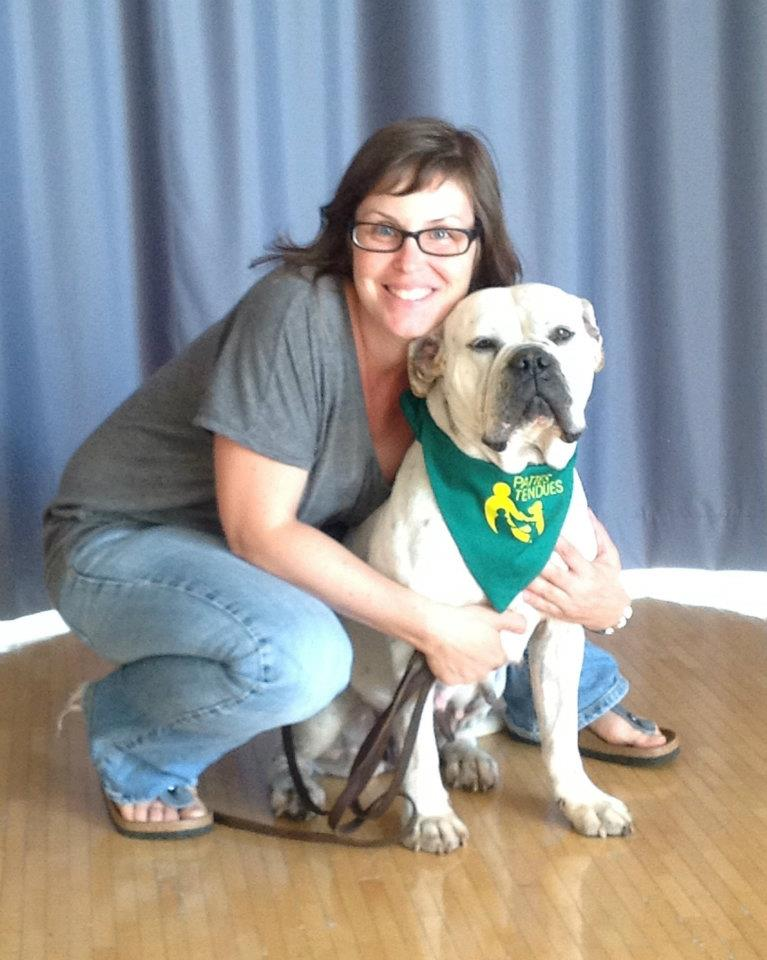 Therapy dog team (Leavitt bulldog)